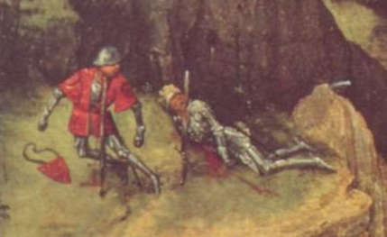 Artist Pieter Brueghel the Elder (1526/1530–1569) Alternative namesPieter Breugel, Pieter Breughel, Pieter Brueghel, Peasant BrueghelDescription Flemish painter, draughtsman and printmaker Date of birth/deathbetween 1526 and 15309 September 1569Location of birth/deathBreugel or BredaBrusselsWork locationAntwerp (1551–1563), Italy (1553), Brussels (1563–1569)Authority control VIAF: 95761864 ISNI: 0000 0001 2144 3618 ULAN: 500013247 LCCN: n80162848 NLA: 36158631 WorldCat Title